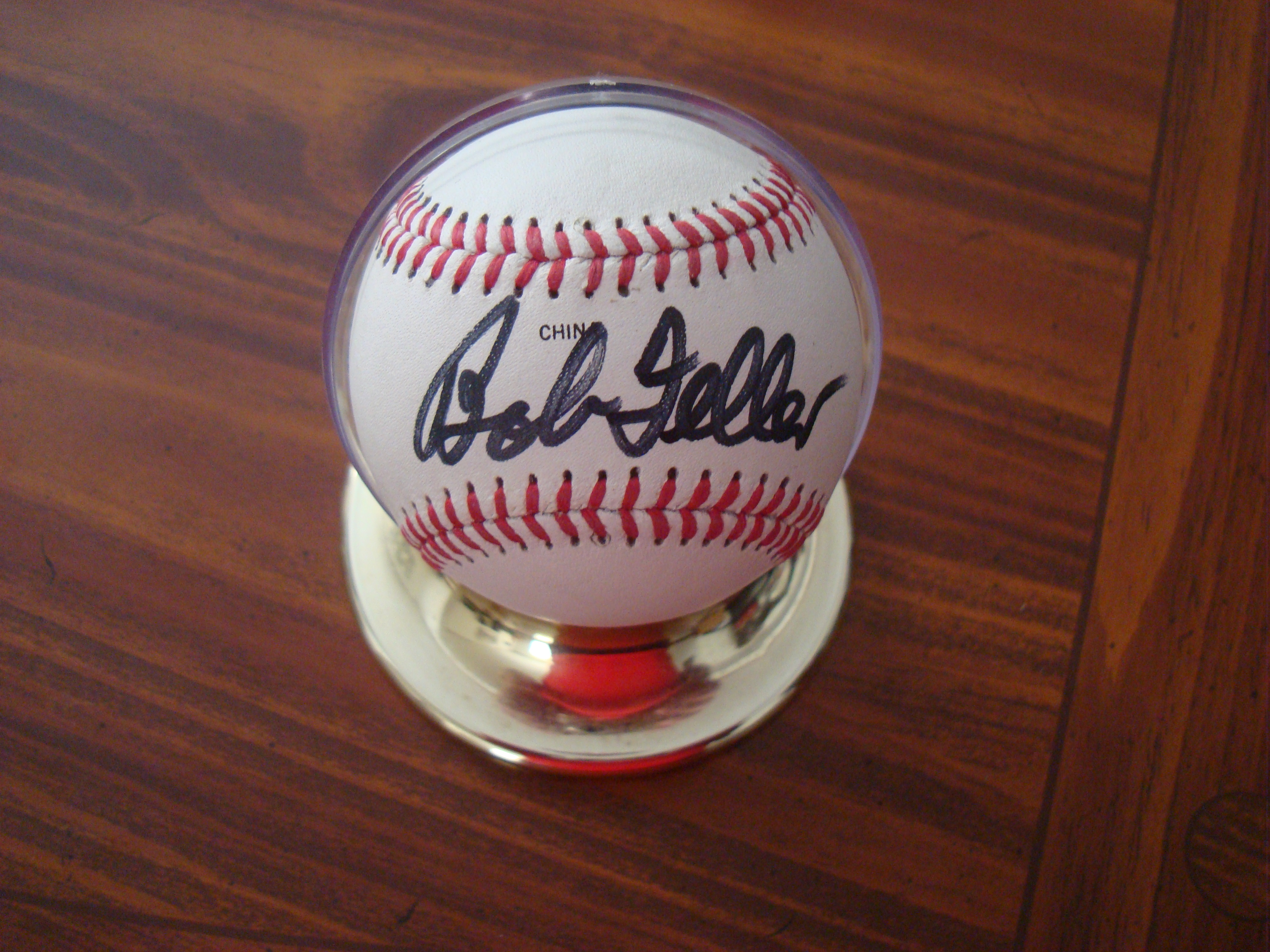 A baseball signed by Hall of Fame member Bob Feller. This was signed by Feller circa 1992-1993 at Little Creek Naval Amphibious Base, Virginia, USA during a baseball-signing tour by Feller and 4 additional former major league baseball players. The front cover of the holder was removed to reduce glare.